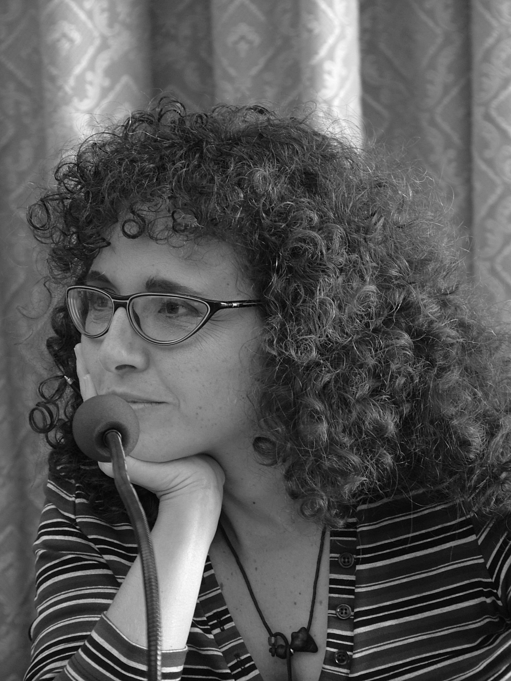 The Italian writer, journalist and LGBT activist Delia Vaccarello during a public debate in Salerno, Italy